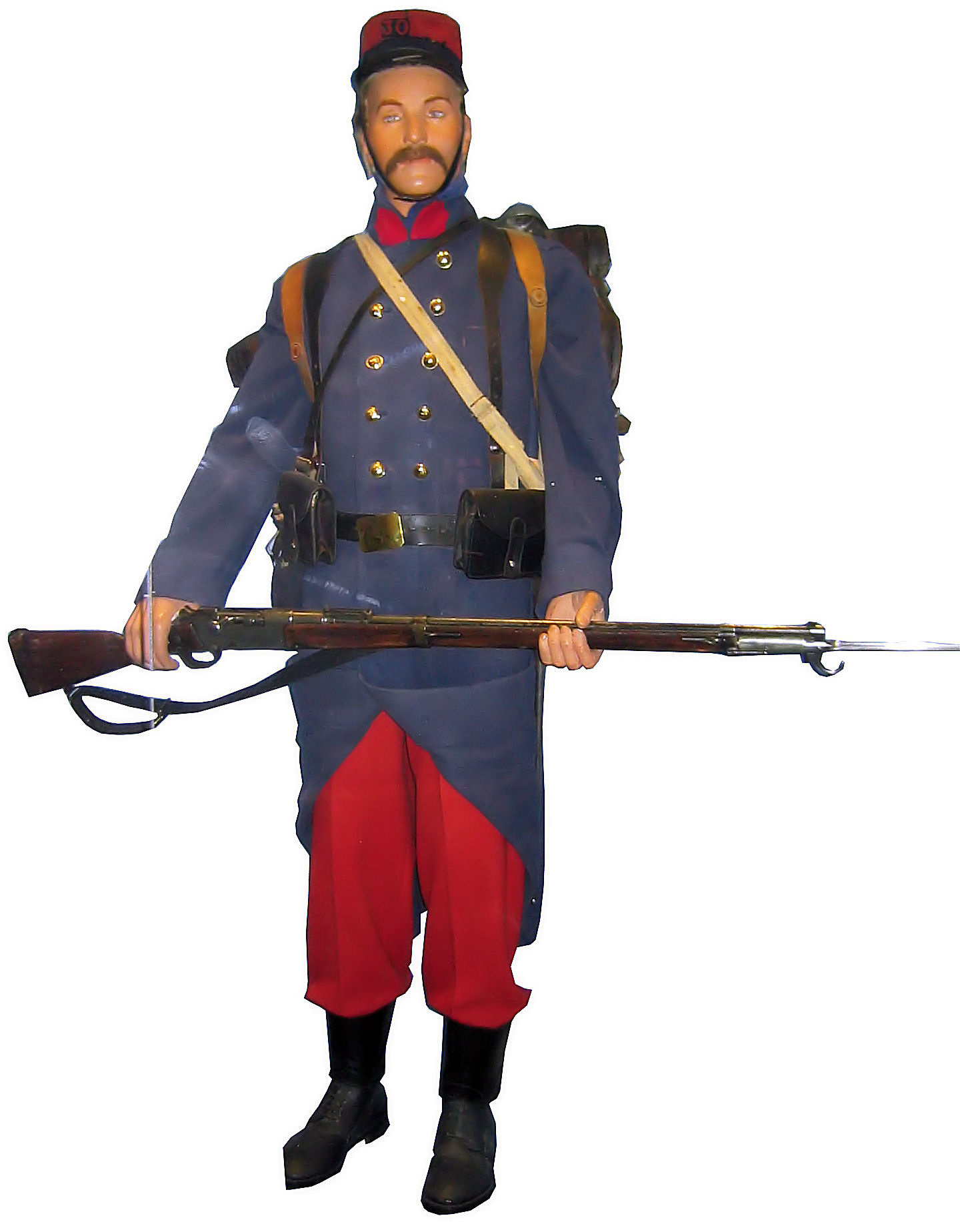 French soldier of WWI in 1914 (in coll. Mémorial de Verdun)